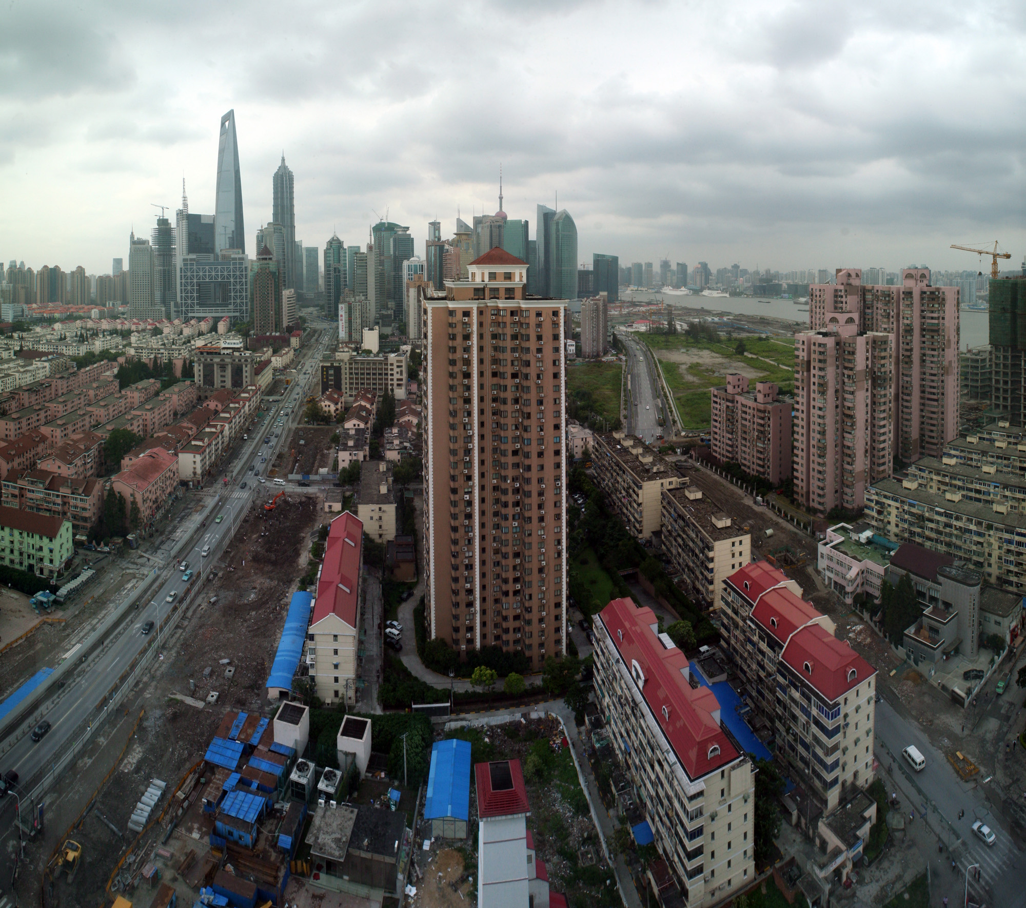 Panoramic view at Shanghai Pudong from the Eton Hotel